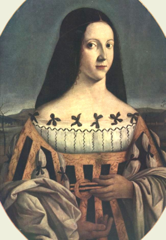 Bernardino dei Conti. "Beatrice D'Este, The Duchess of Milan" (fragment), c. 1500.